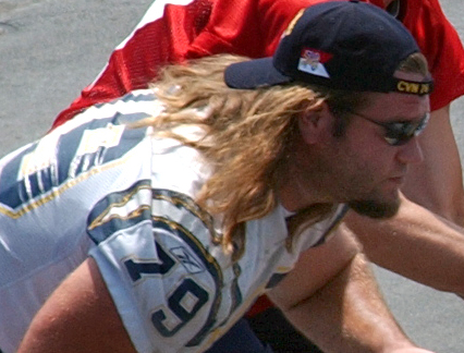 Starting Quarterback for the National Football League (NFL) San Diego Chargers, Philip Rivers (17), takes the snap from Center, Nick Hardwick (61), during a light practice on the flight deck aboard USS Ronald Reagan (CVN 76). The Chargers held practice aboard the Navy's newest nuclear powered aircraft carrier in preparation for their first pre-season game against the Green Bay Packers, August 12. During pre-game ceremonies, a military appreciation game will involve Ronald Reagan Sailors and the unfurling of a giant American display flag. Ronald Reagan is currently pier side at her homeport of San Diego after returning from its maiden deployment in July 2006.